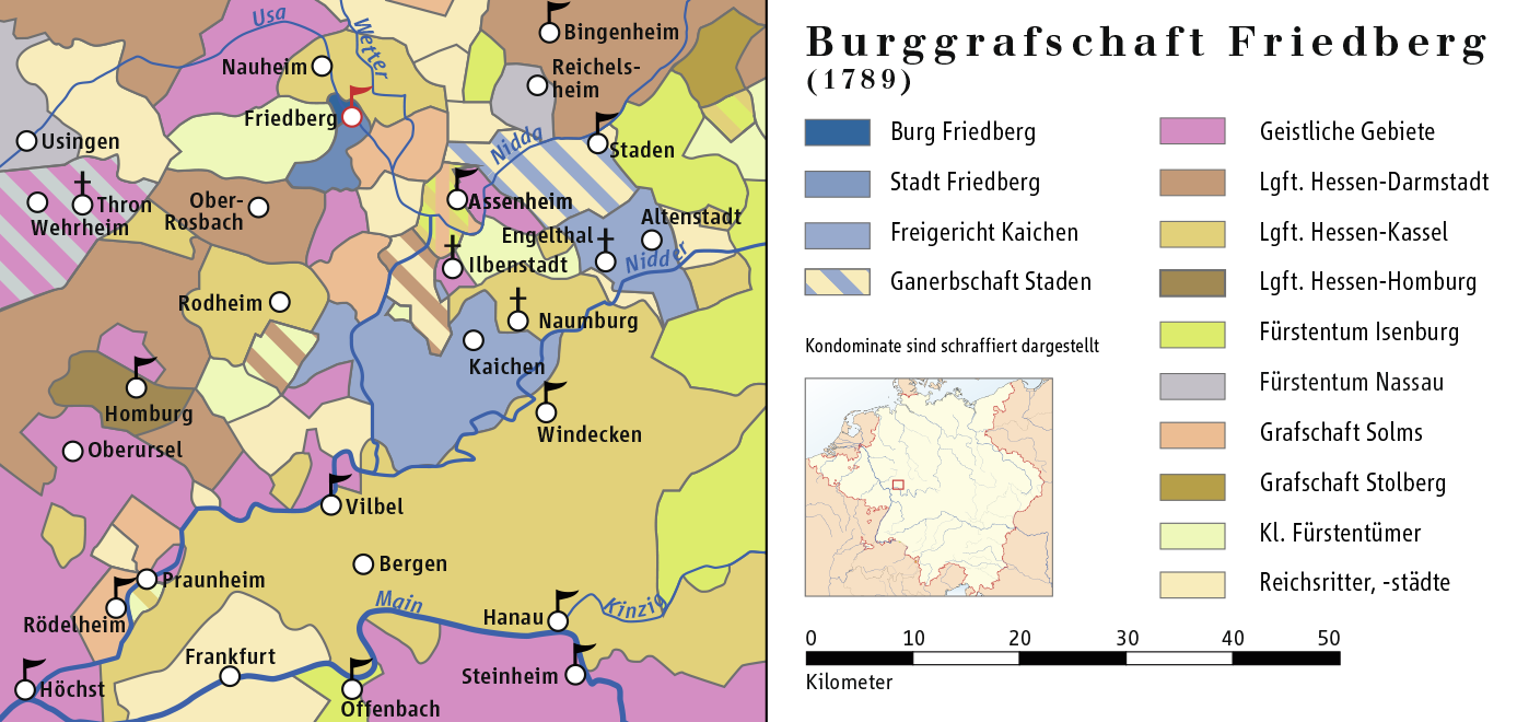 Countship of the Burgraves of Friedberg 1789